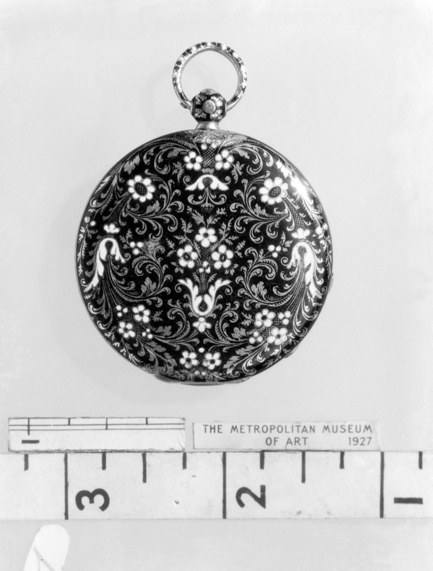 French, Paris; Watch; Horology